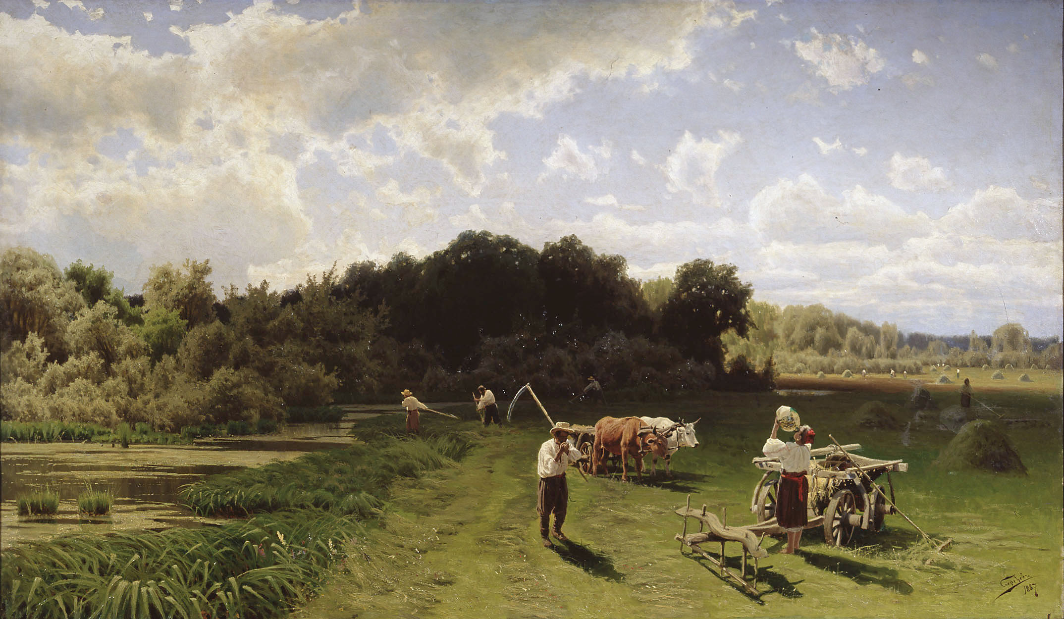 Shows a hay mowers